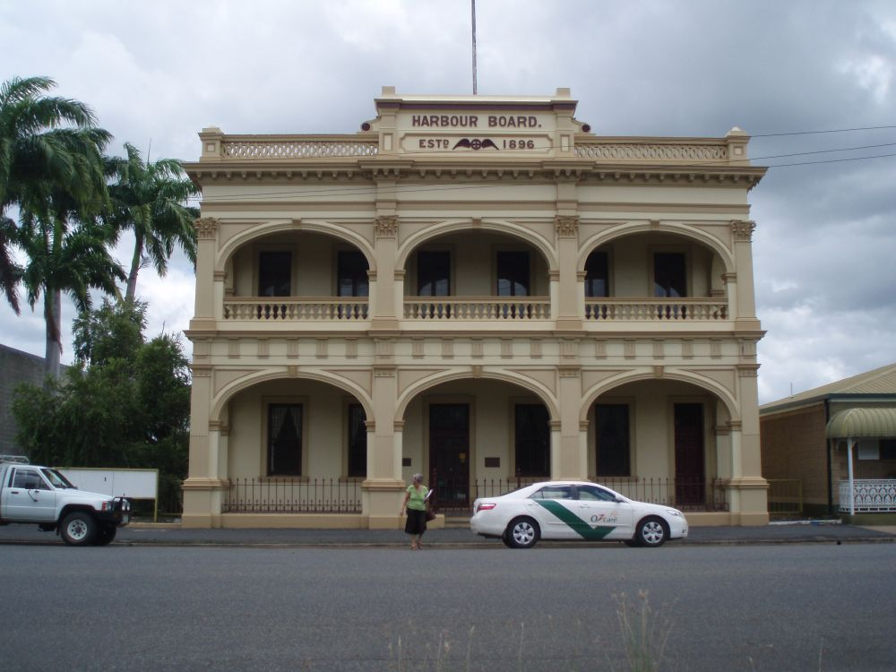 Harbour Board (former), from NE (2009)